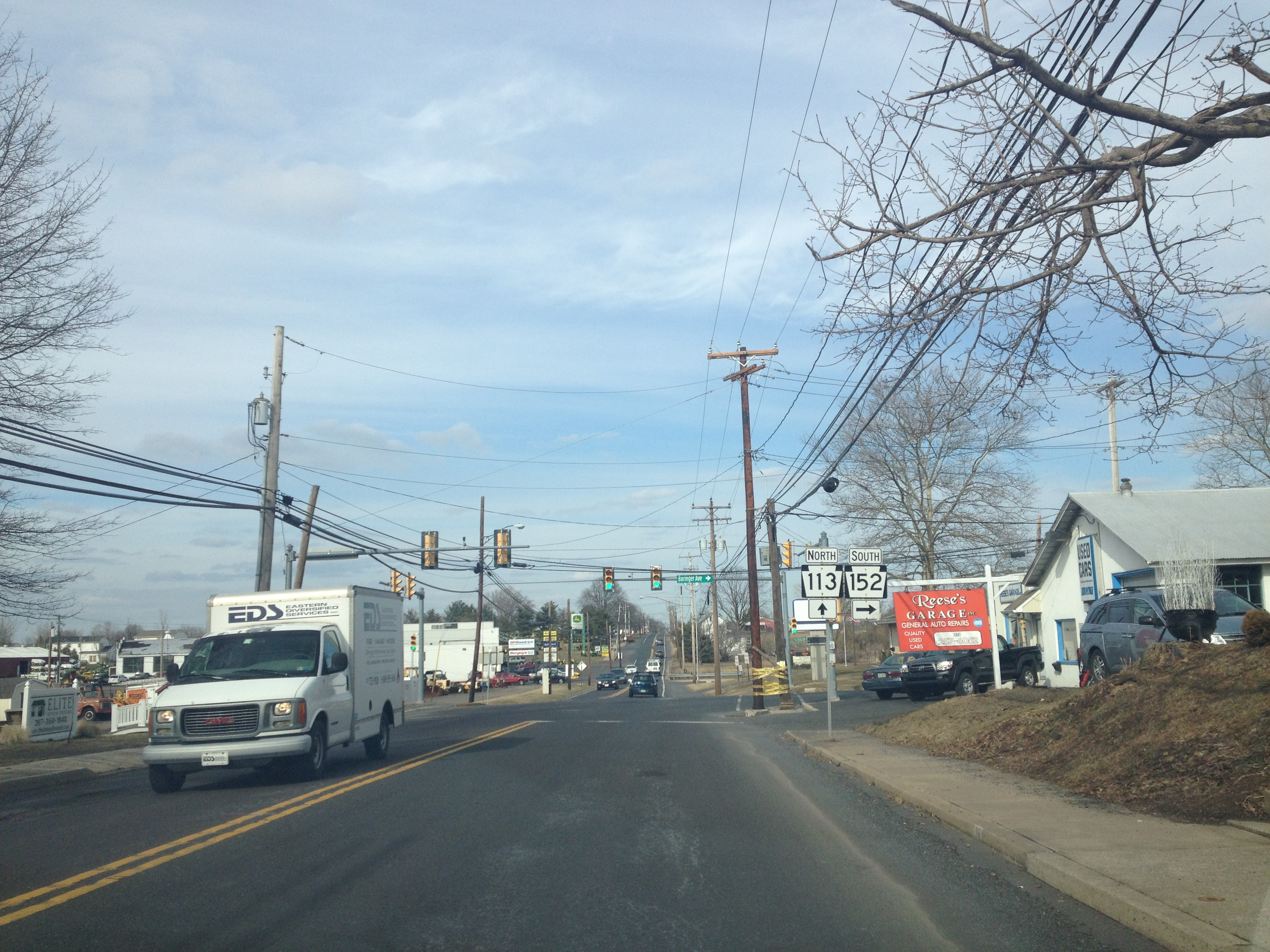 Northbound Pennsylvania Route 113/southbound Pennsylvania Route 152 (Main Street) in Silverdale, where Pennsylvania Route 152 south turns onto Baringer Avenue.